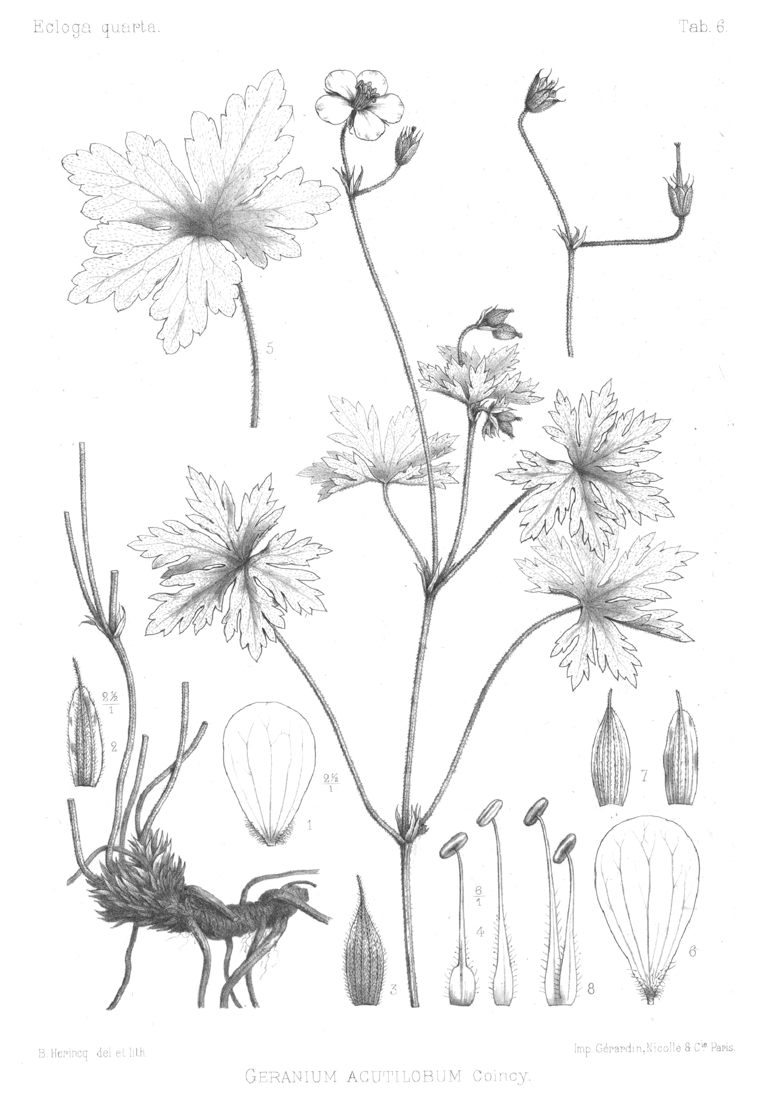 Illustration of Geranium acutilobum Coincy = Geranium collinum L.